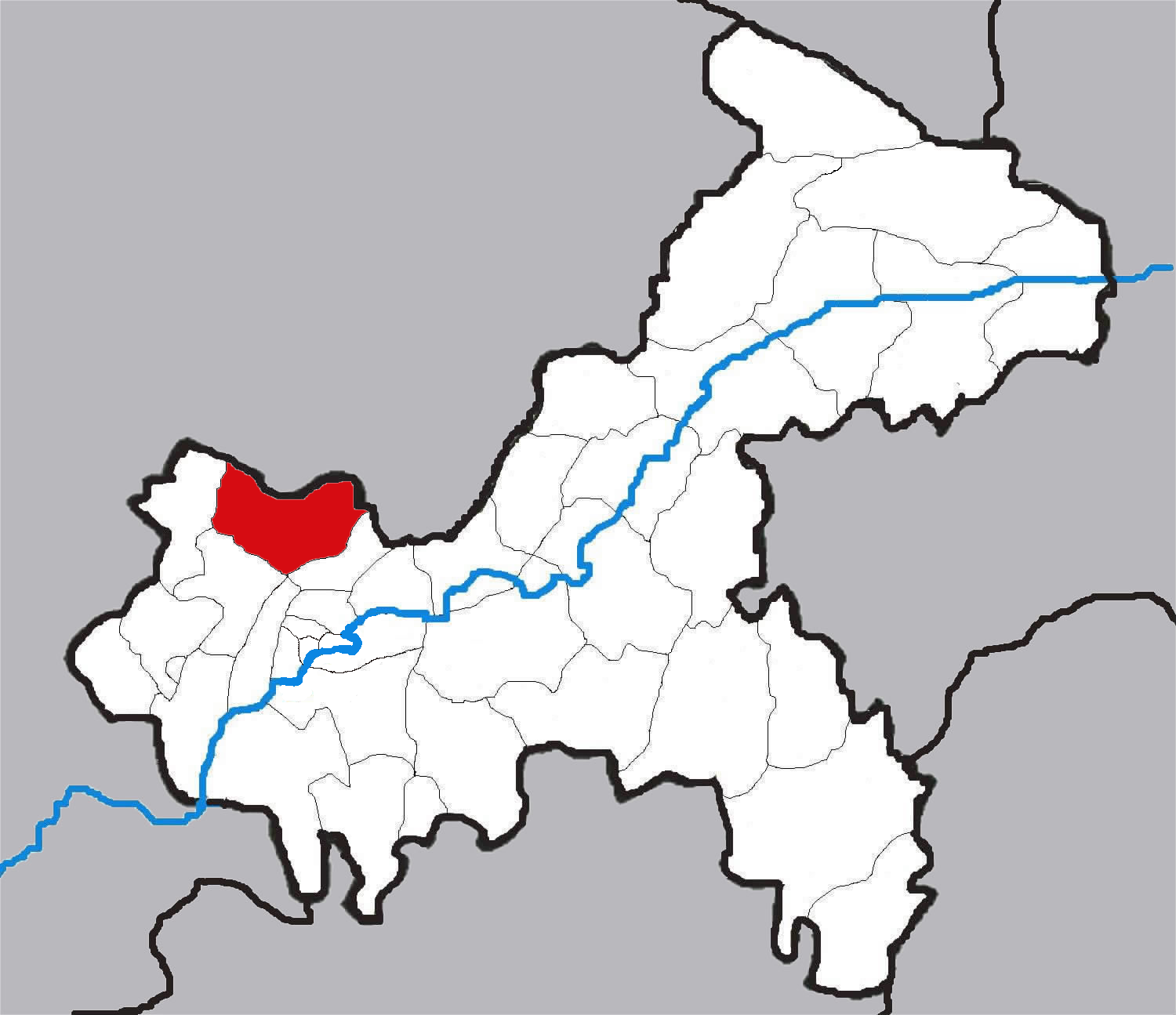 Administration maps of Chongqing, China